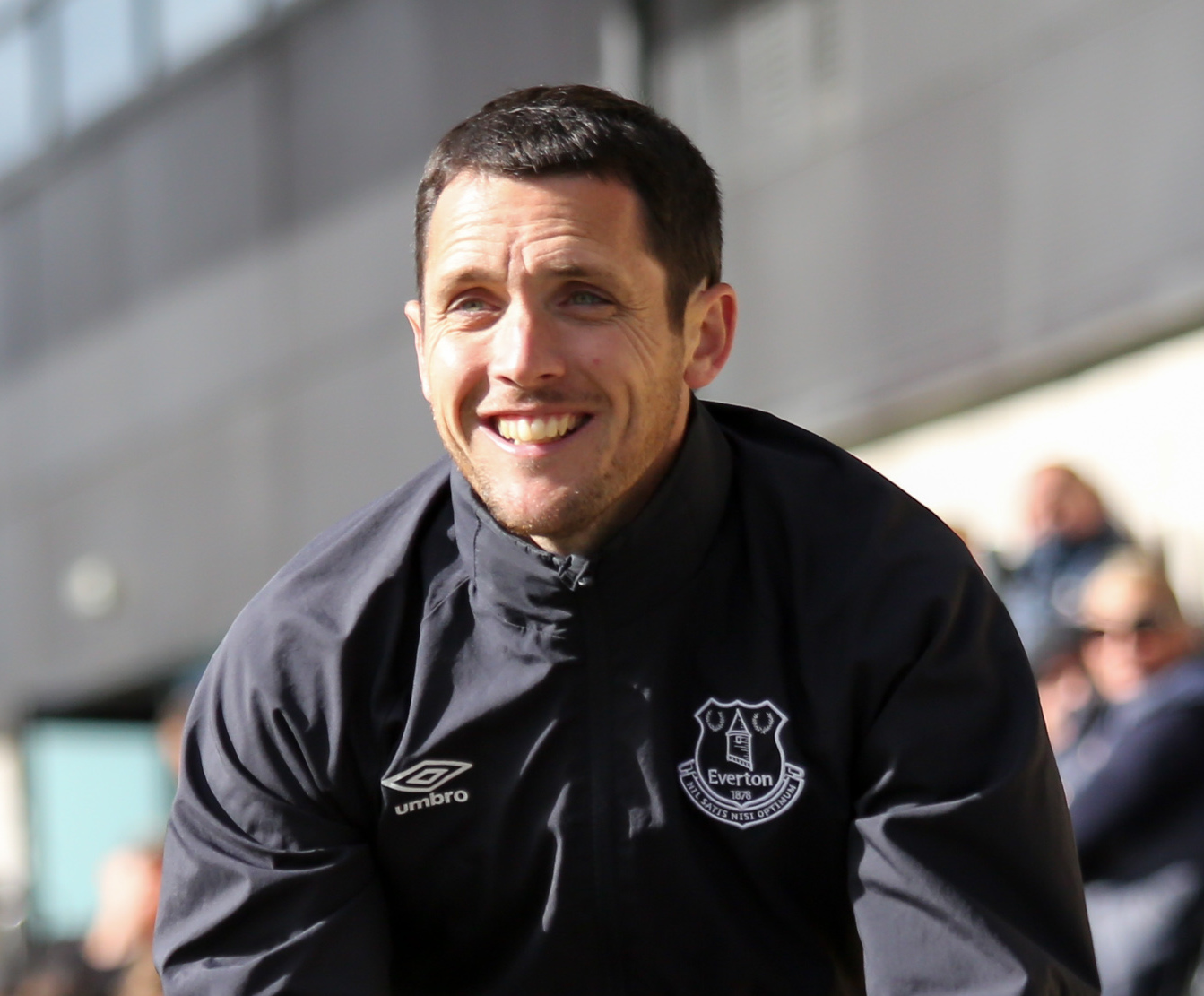 London Bees v Everton LFC, 20 May 2017